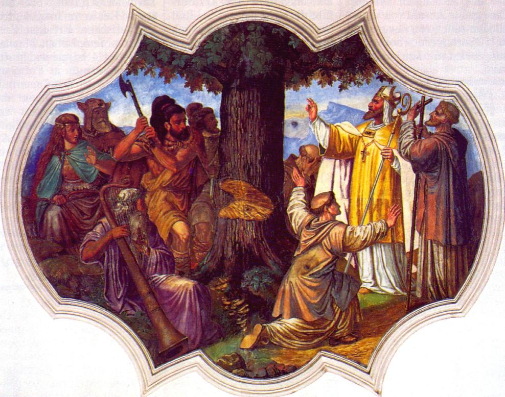 Thor's Oak